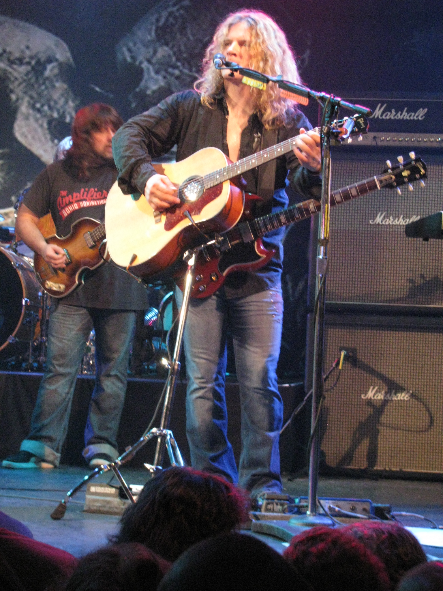 Frank Hannon with Tesla at the Chance Theater in Poughkeepsie, NY.